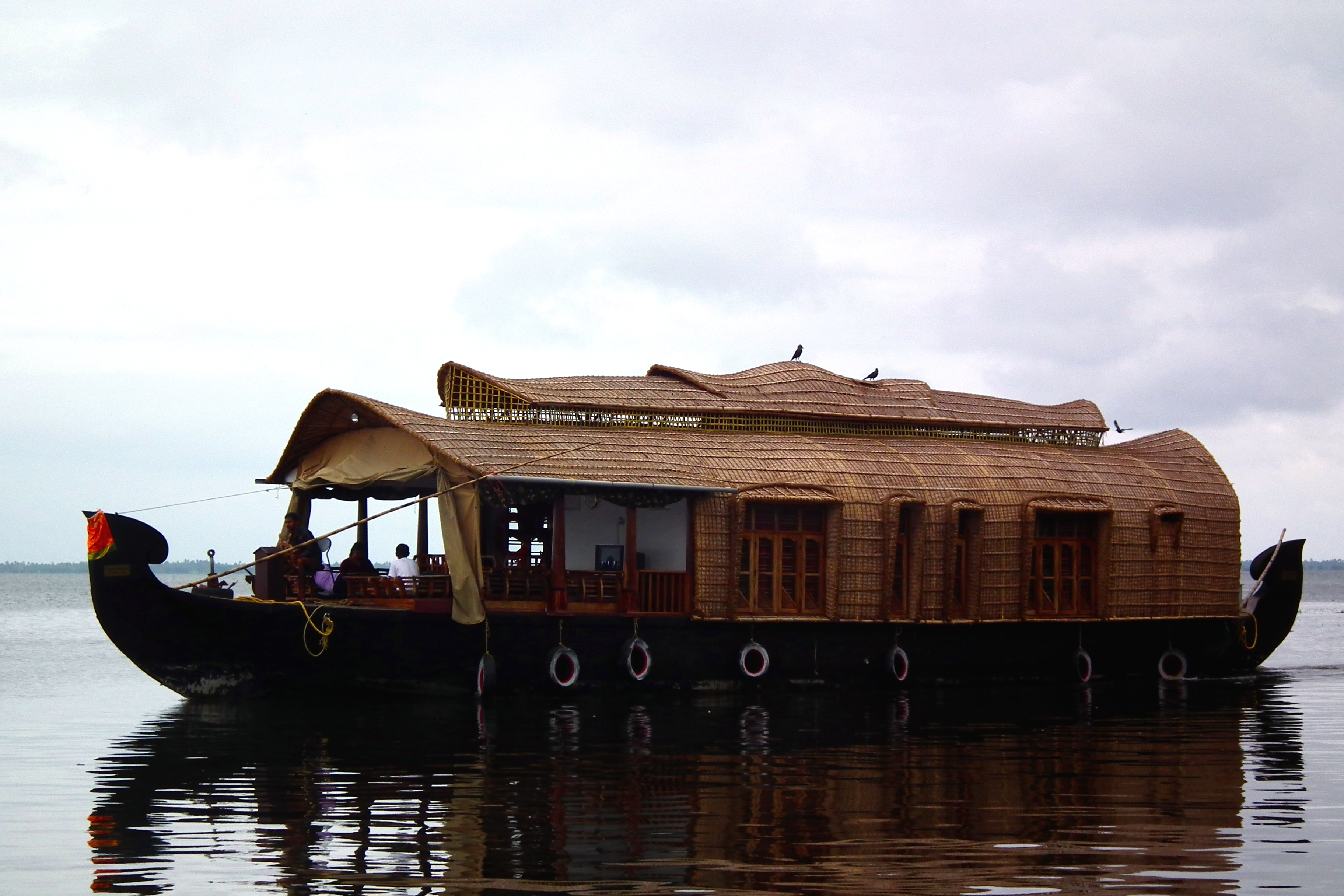 the close view of houseboat from vembanadu lake in Kerala